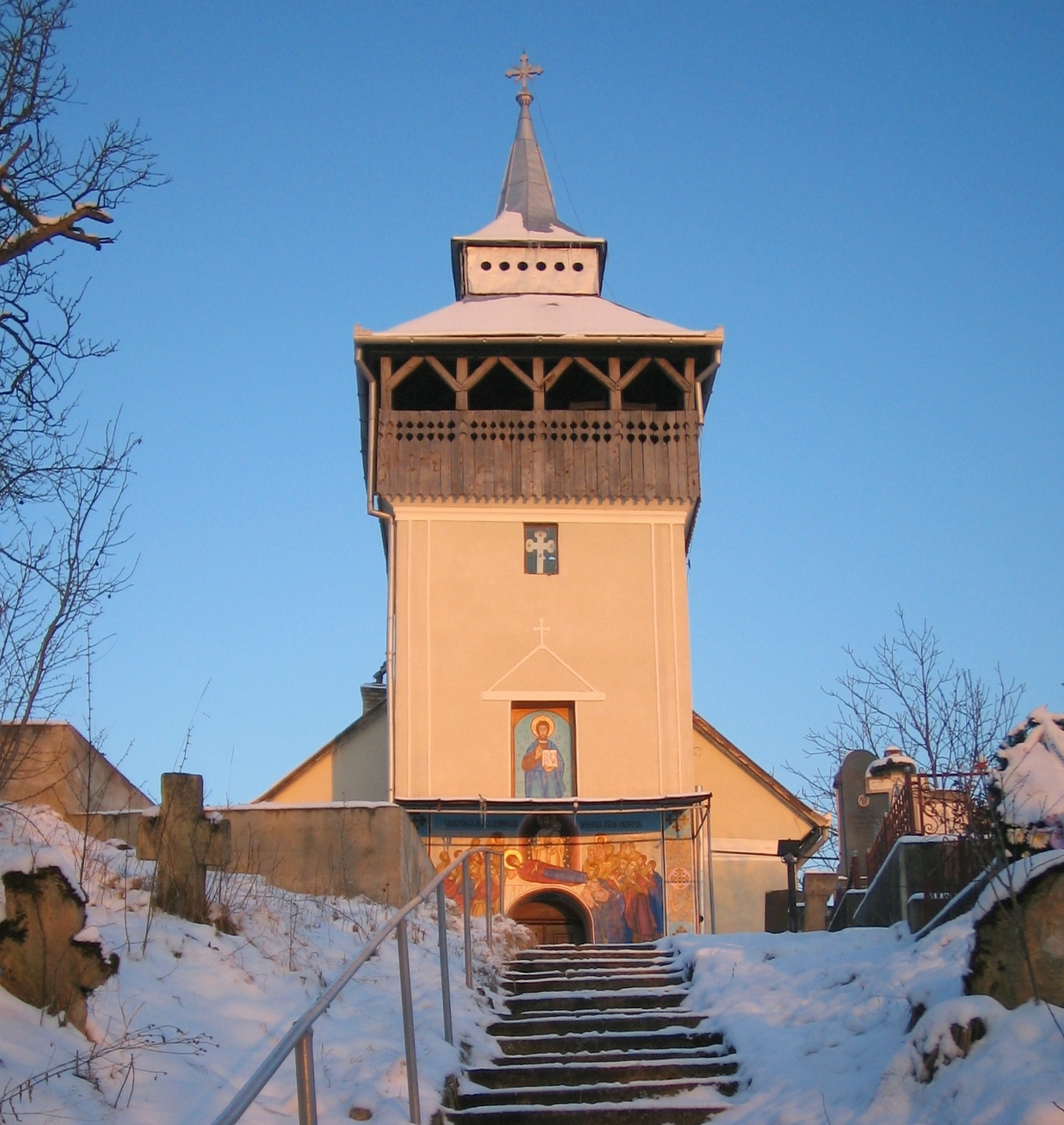 Orthodox church in Chitid, Hunedoara county, Romania